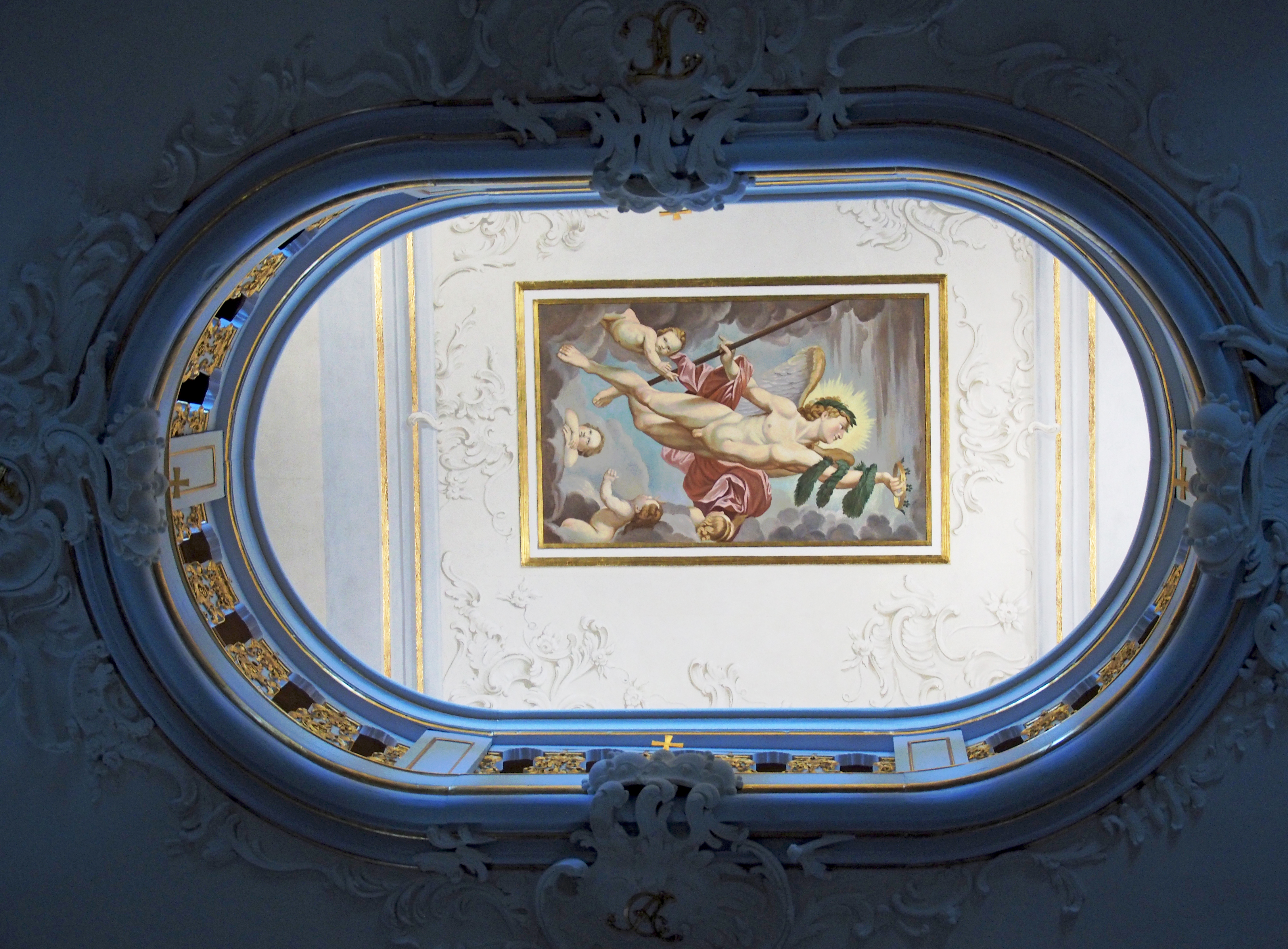 Painting "der Genius des Ruhms" (reconstruction, orignal lost in the 2004 fire) by Johann Heinrich Meyer (painter)